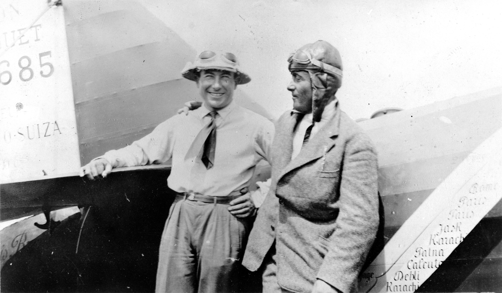 Pilote Dieudonné Costes (à droite) et son navigateur Joseph Le Brix (à gauche) pris en photo devant leur appareil après avoir réussi la première traversée sans escale de l'Atlantique Sud en 1927.